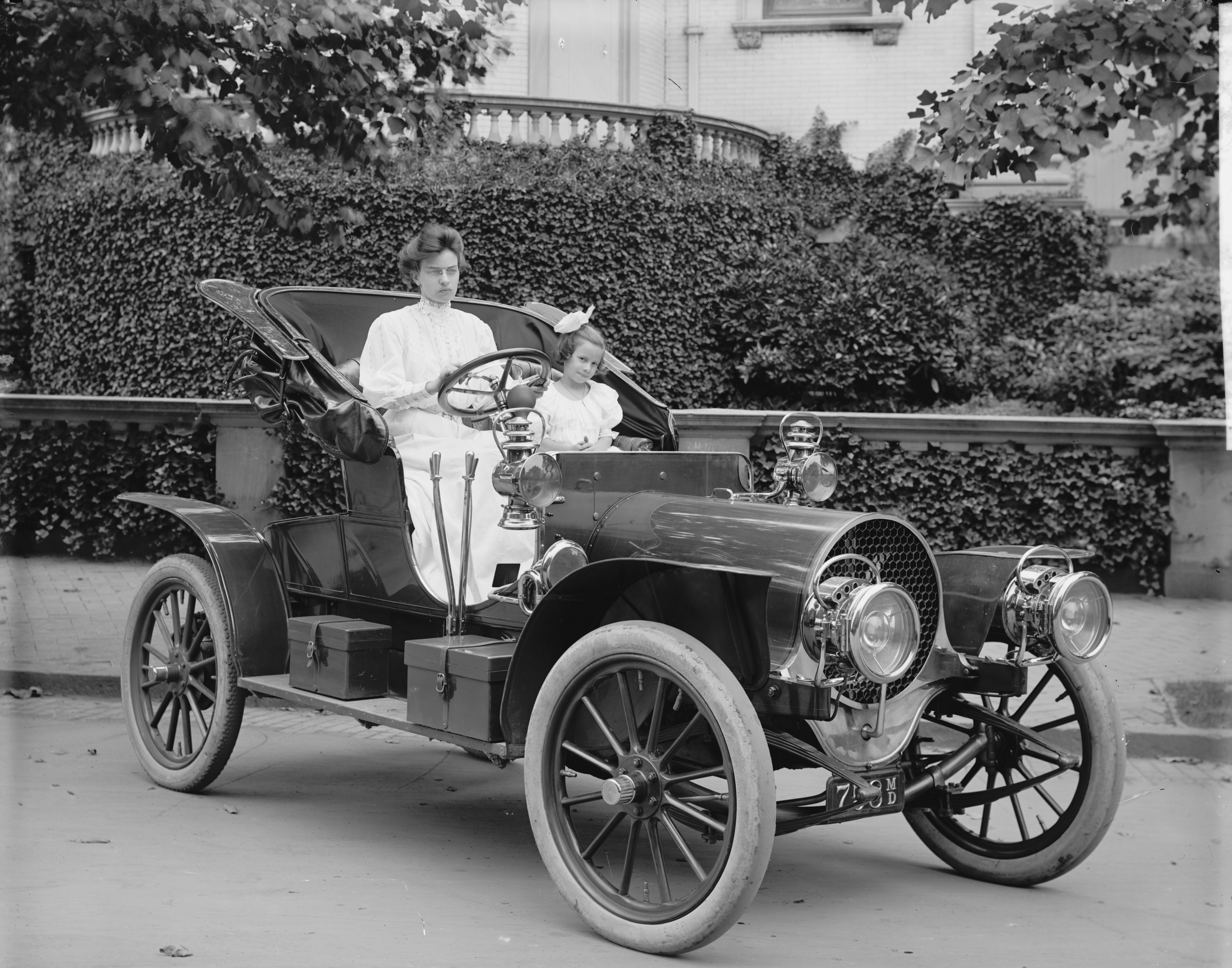 "Mrs. F.S. Bliven in auto". Photo shows wife and daughter of Frank S. Bliven in a 1907 Franklin Model D roadster. Frank Bliven was a Washington, D.C. Franklin auto dealer. Discussion of this photo on